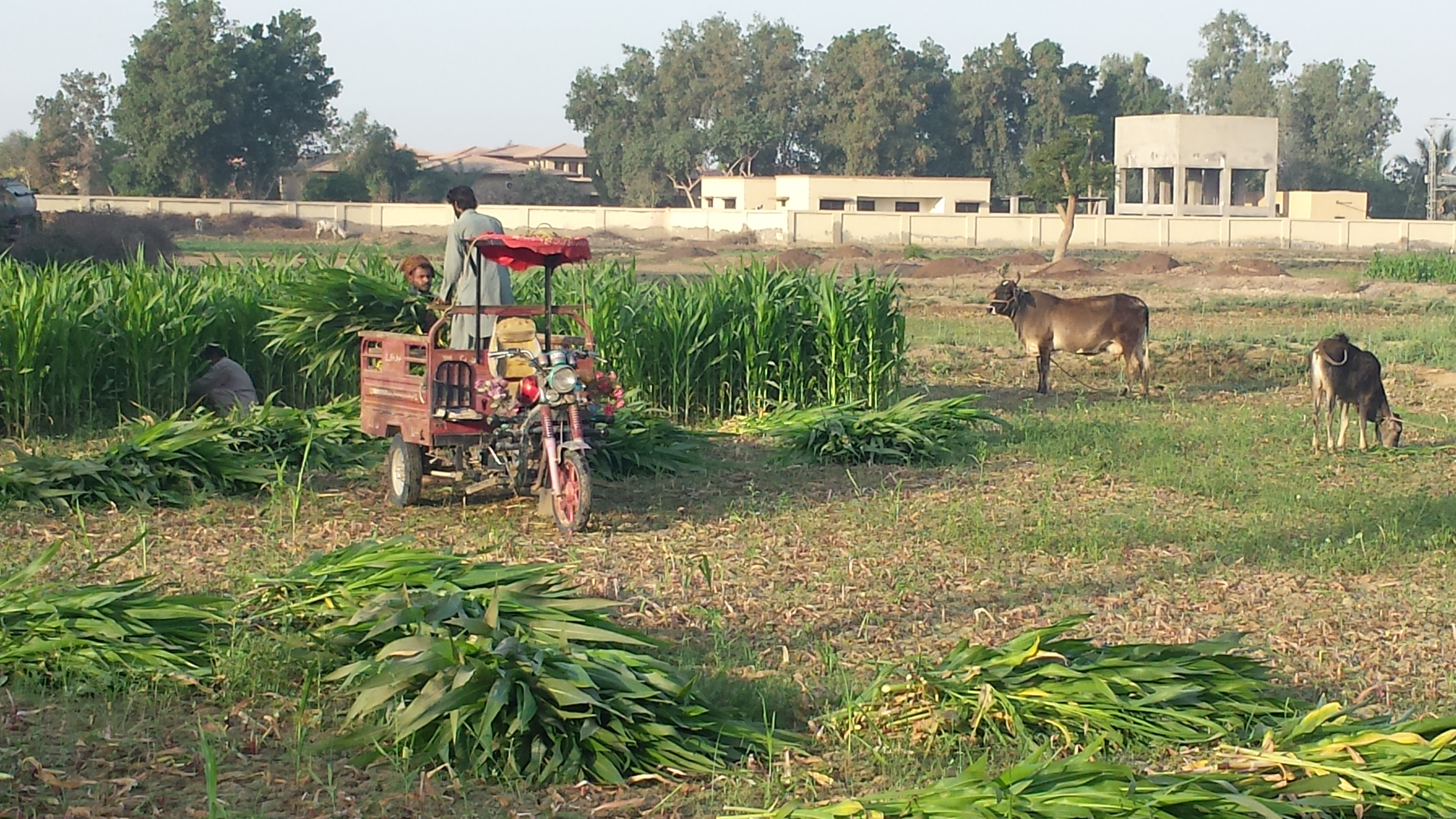 Kareem Baloch Farm House Uthal City